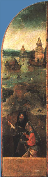 Inner left wing of the Triptych of the Crucified Martyr.